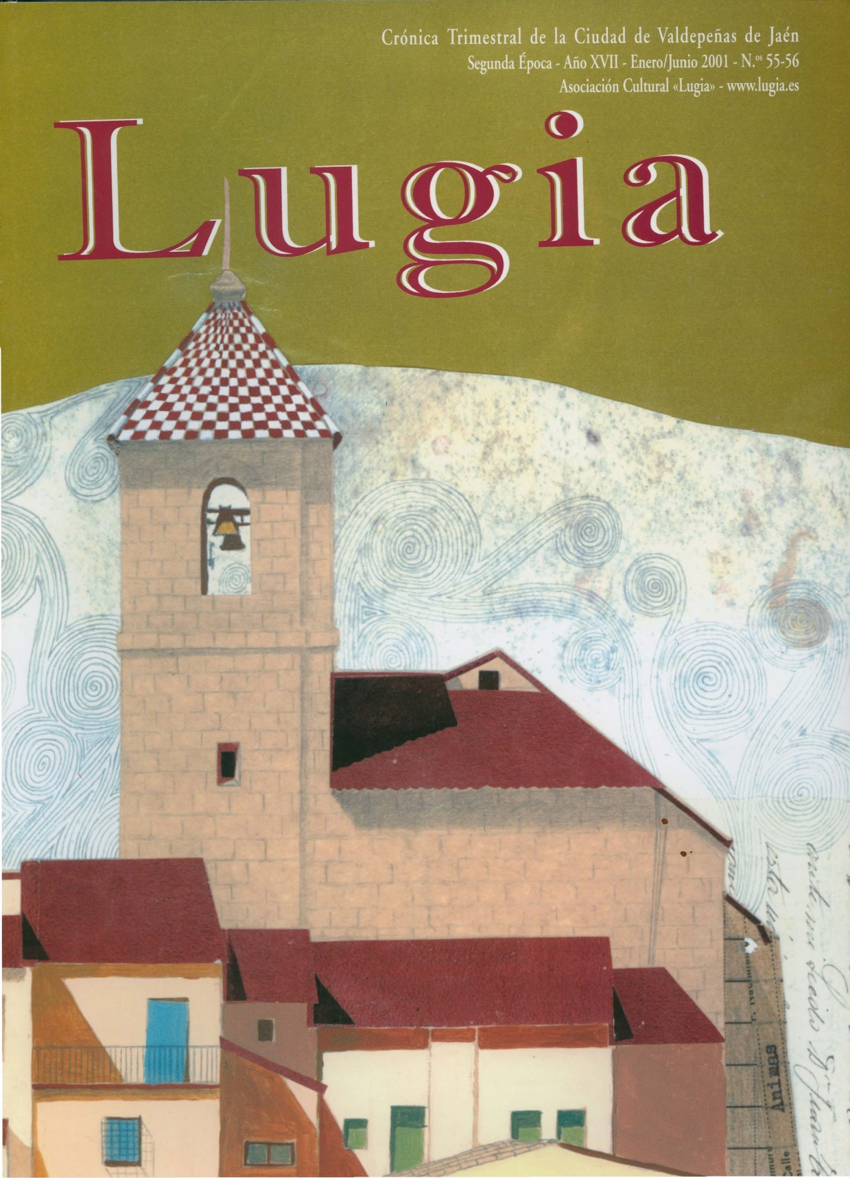 Portada del número 55-56 de 'Lugia' Crónica Trimestral de la Ciudad de Valdepeñas de Jaén, 2001.